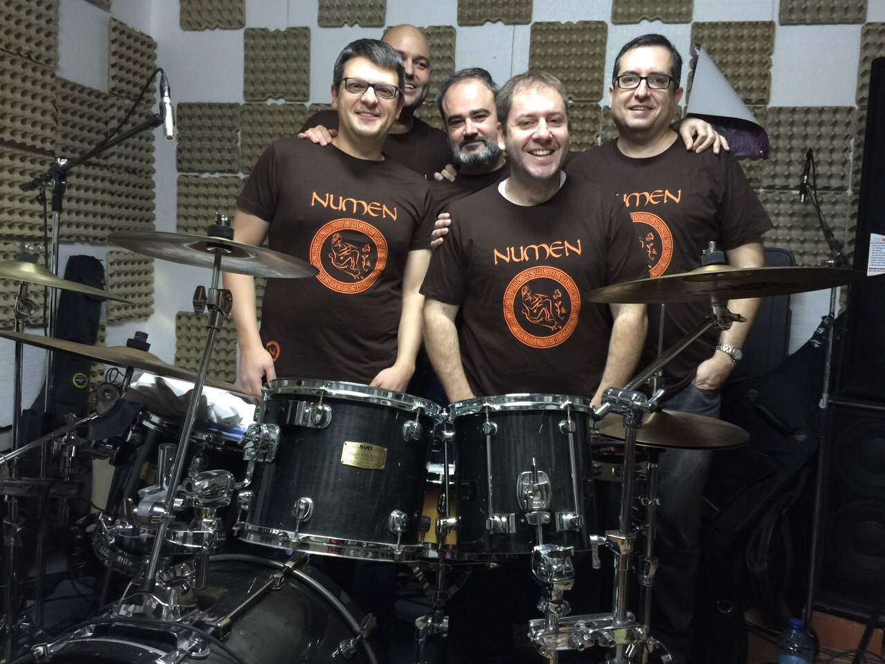 Current members of Numen, 2015